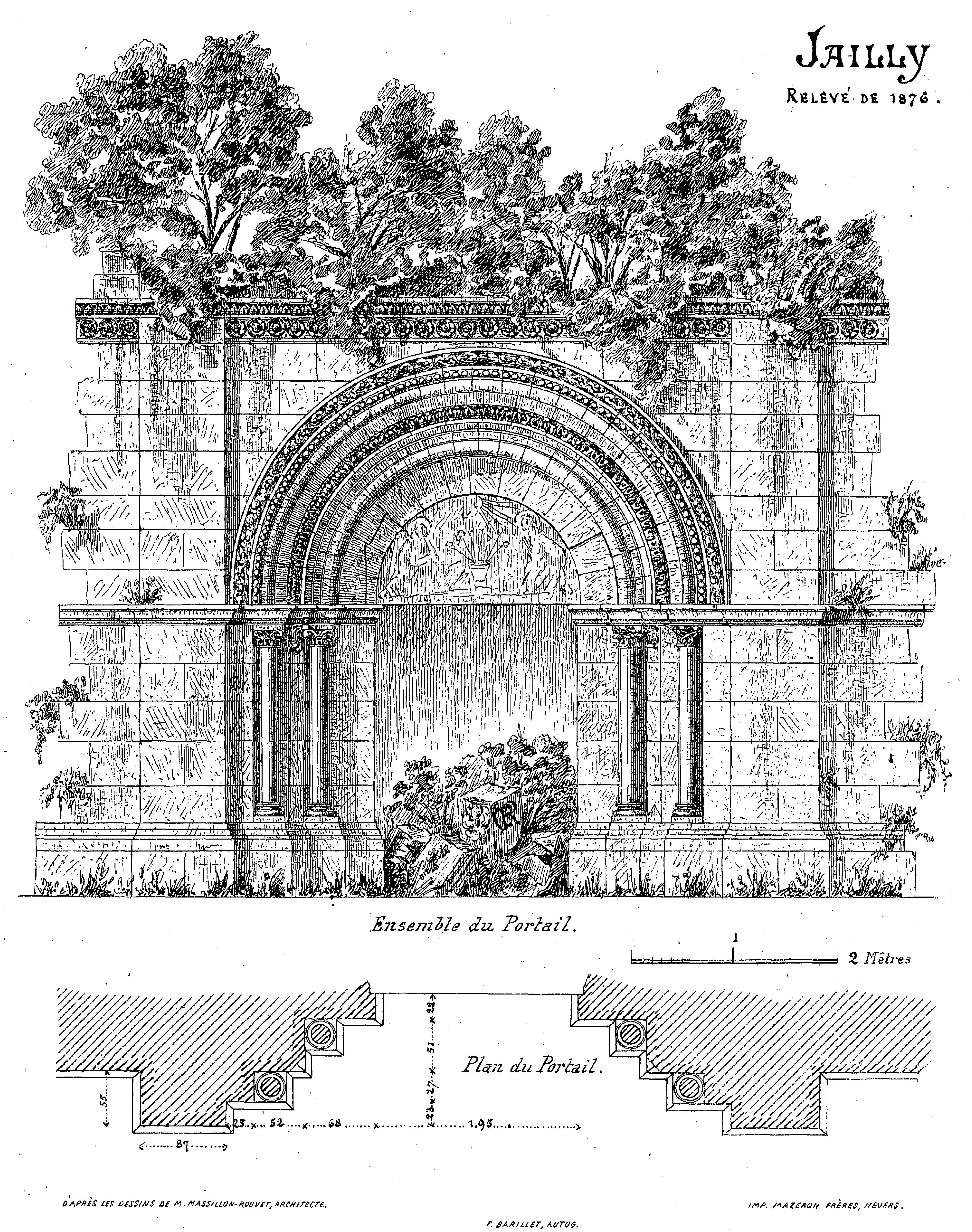 Drawing from the study conducted in 1876 by Mr. Rouvet-Massillon, Architect, representative of the Academic Society of Nivernais, the Church of Jailly the architectural point of view